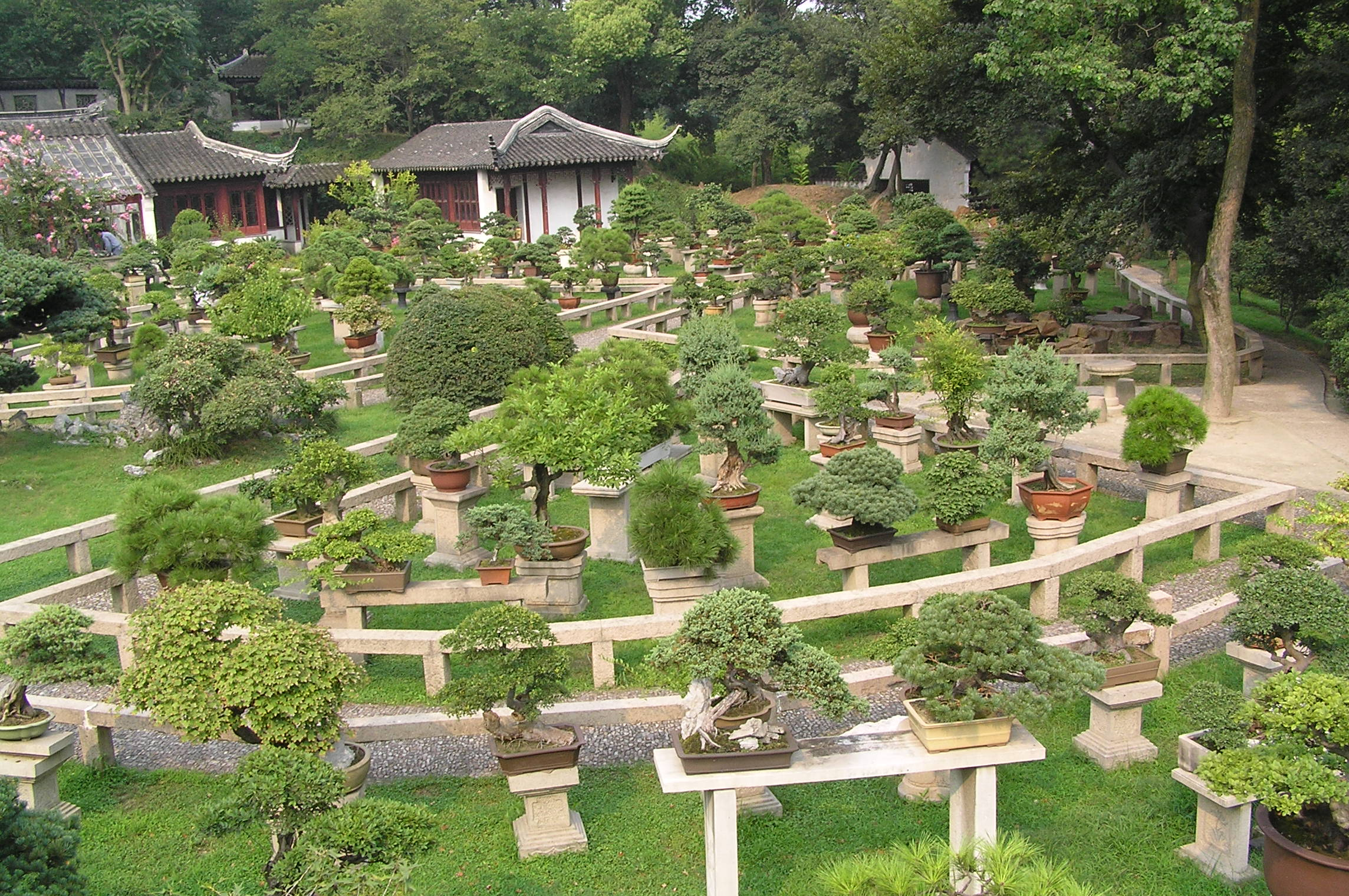 Penjing (Chinese precursor of Japanese bonsai) "forest". At the gardens on Tiger Hill of Yunyan Ta pagoda (Cloud Rock Pagoda), also known as leaning pagoda — Suzhou, China. Author:Mr. Tickle Date: 07/27, 2005